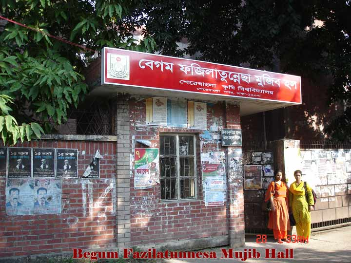 Begum Fazilatunnesa Mujib Hall, SAU